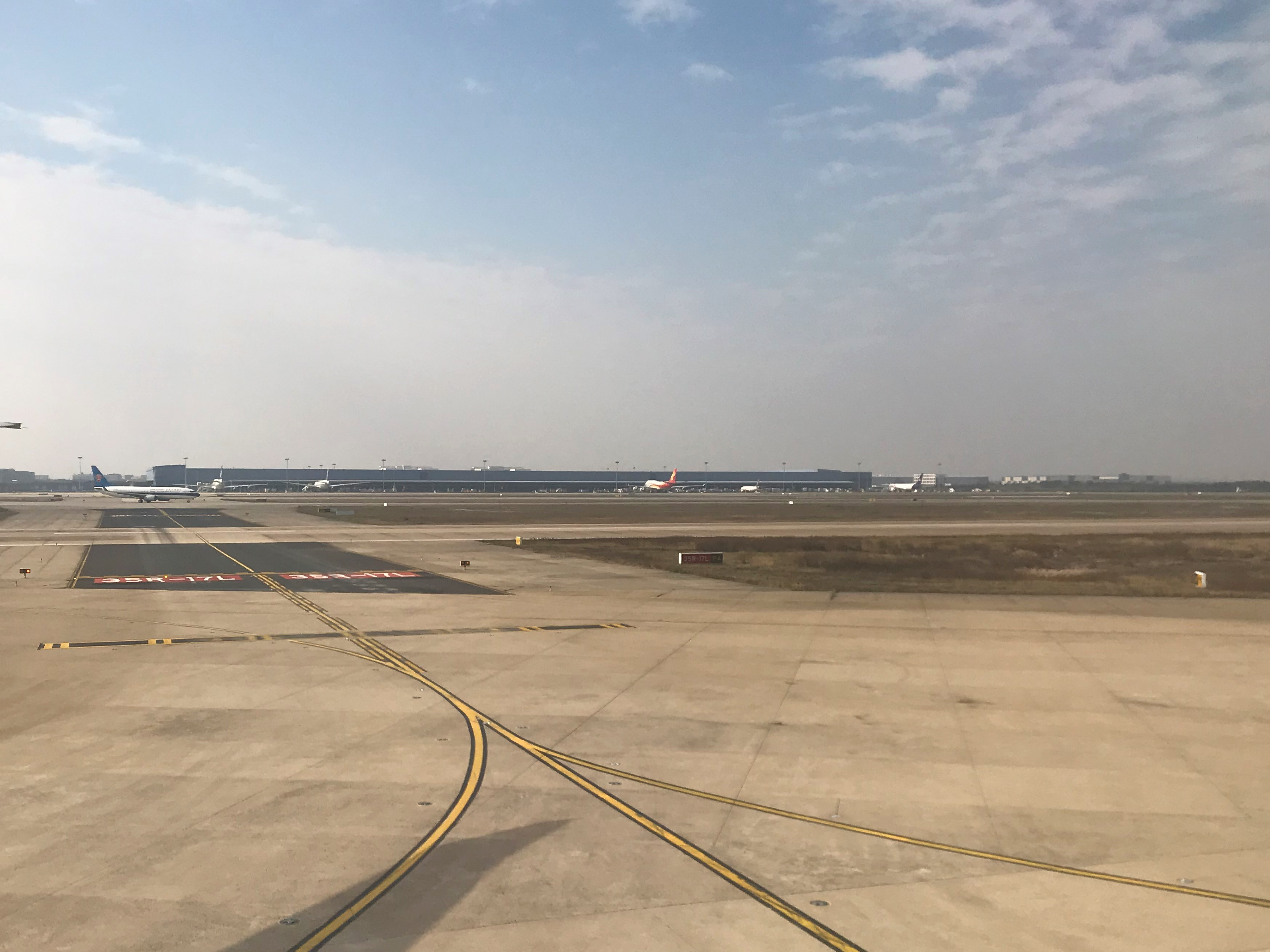 201812 Pudong Airport Freight Center